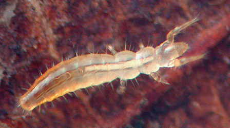 A proturan from Durham, North Carolina, USA.